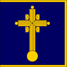 Flag of the city and municipality of Vračar, Serbia